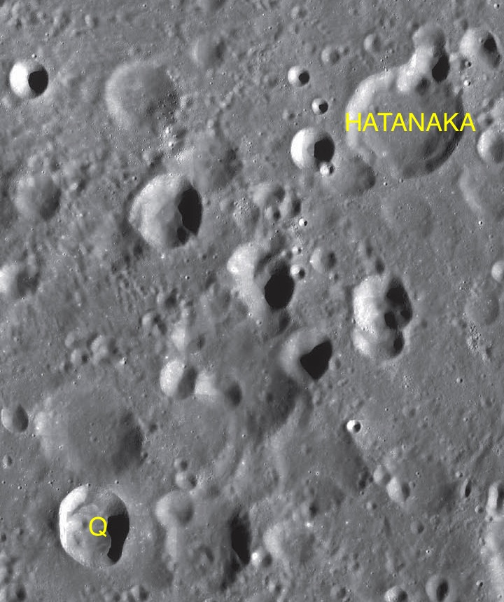 Part of the chart LAC-53